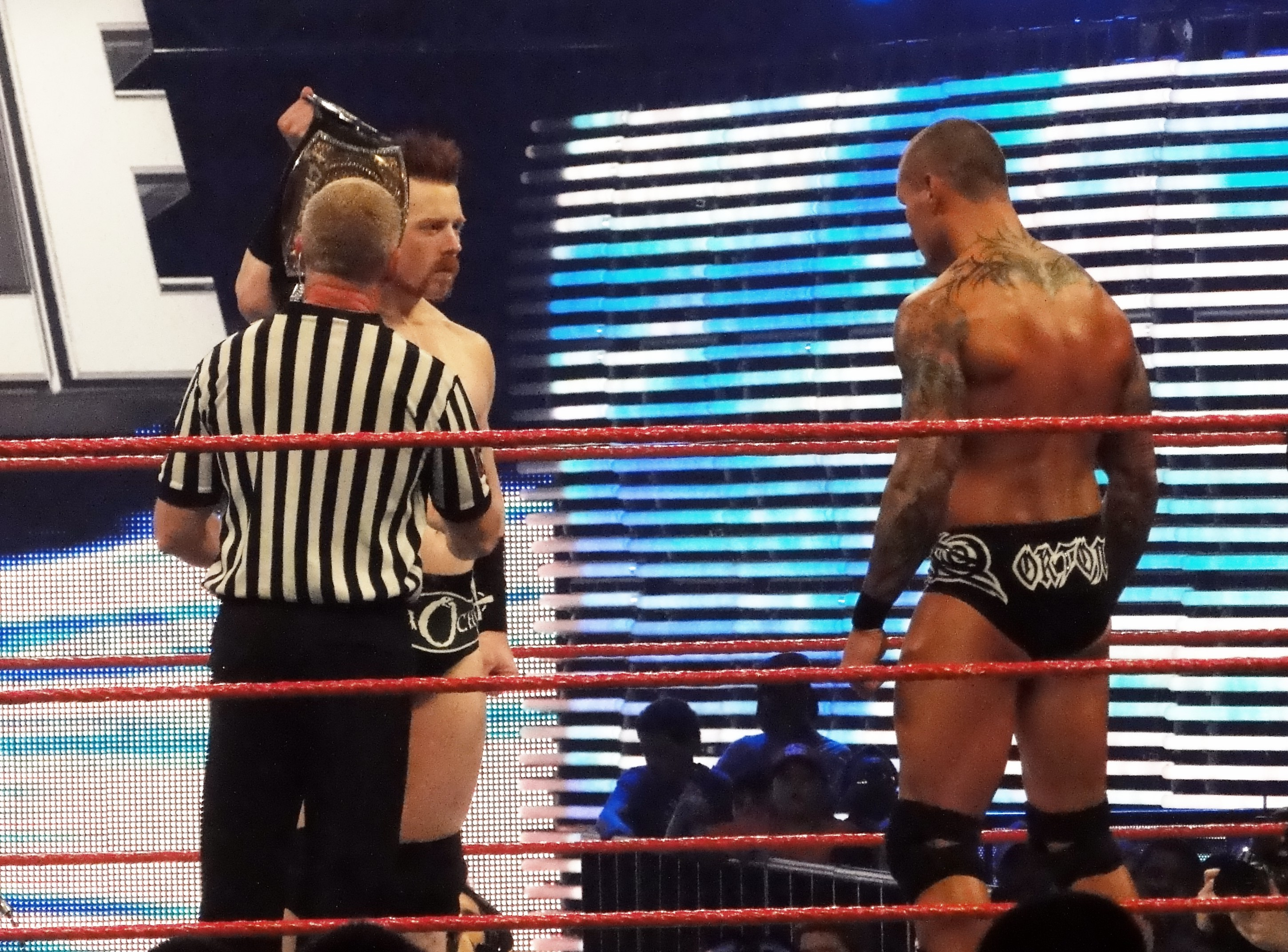 Sheamus vs Orton in Royal Rumble